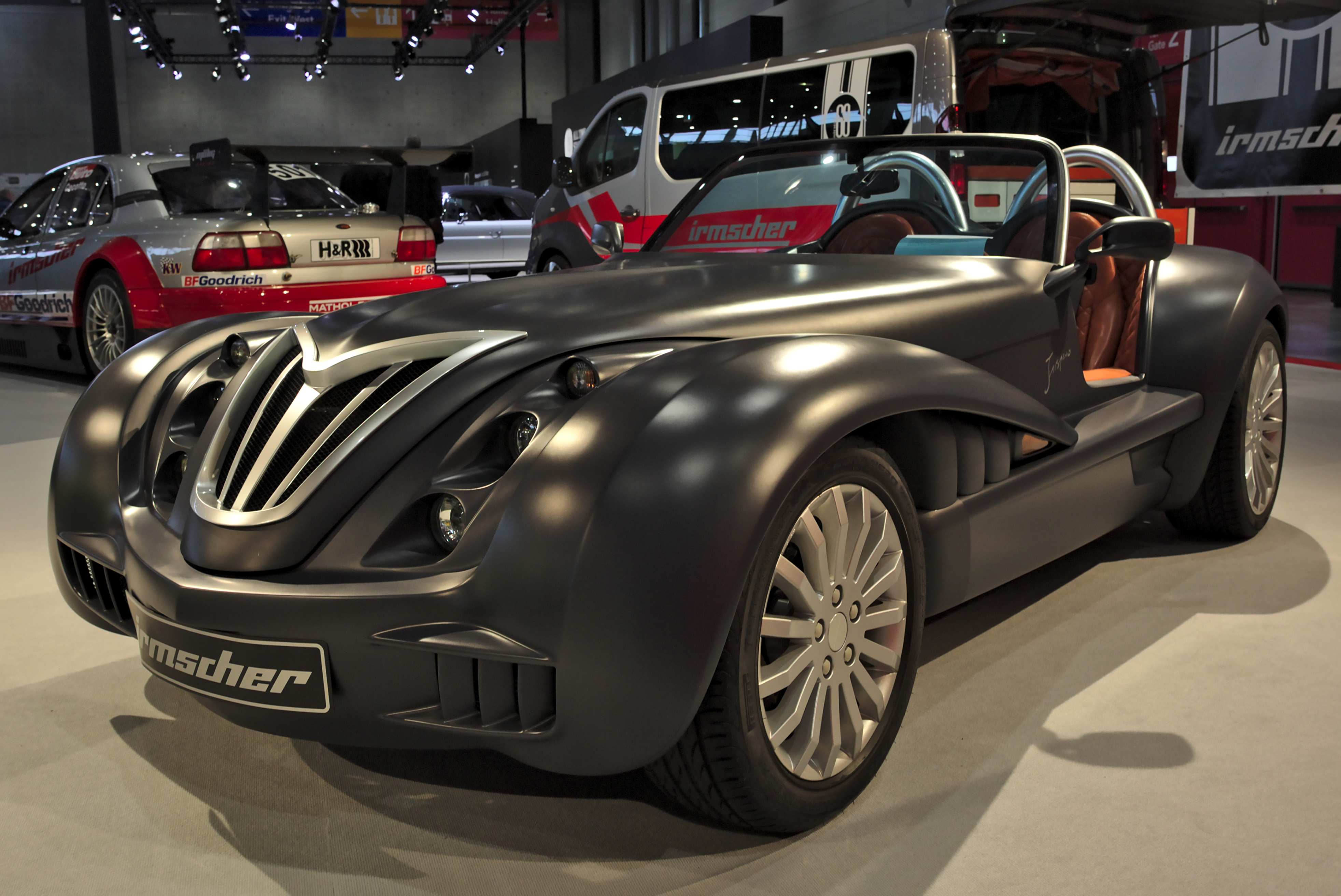 Irmscher Inspiro at Retro Classics 2018